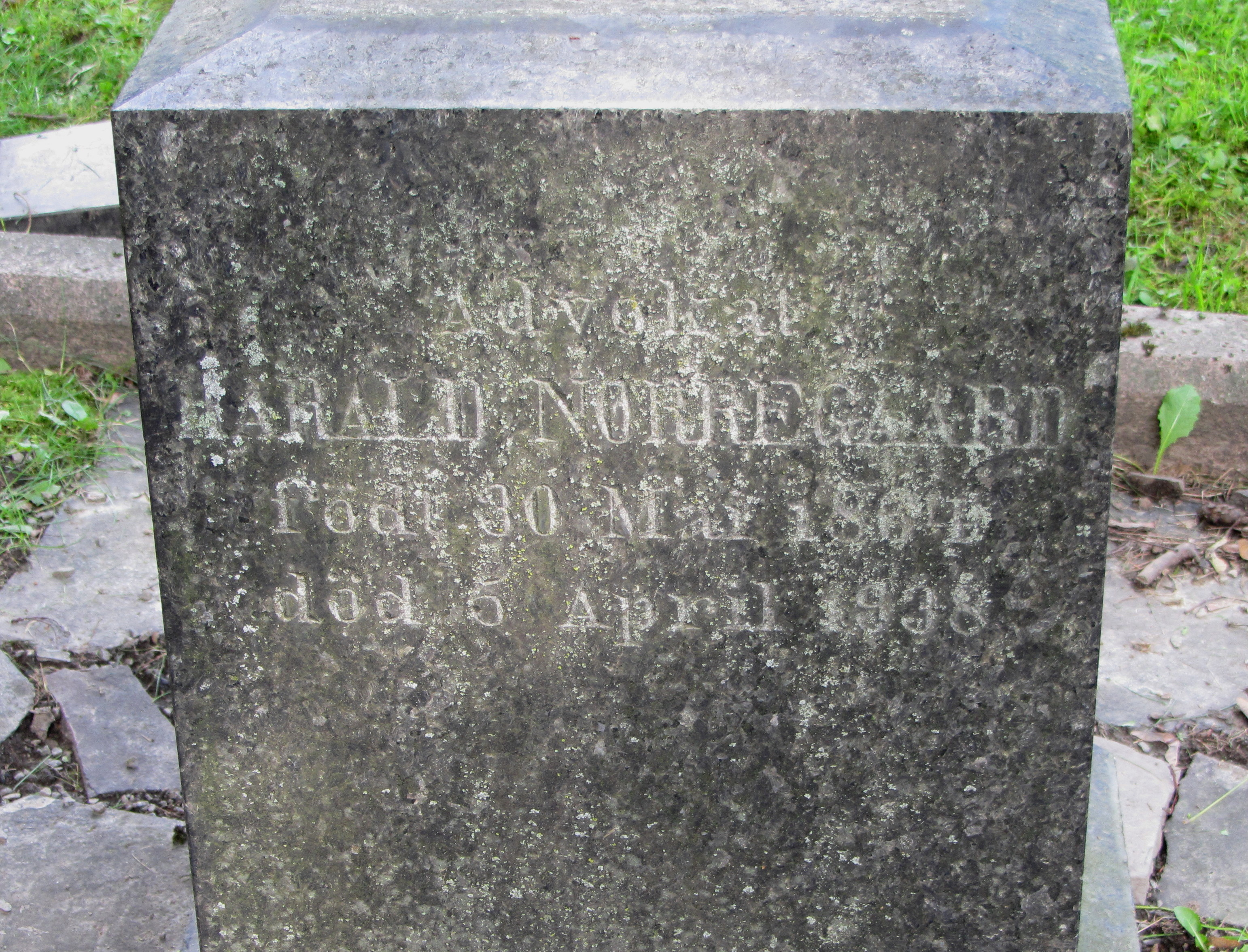 Gravminne for Harald Nørregaard på Vår Frelsers gravlund (nordre del)